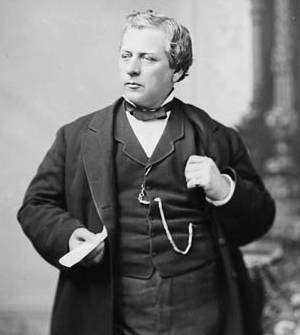 Hon. Lucius Seth Huntington, M.P. (Shefford, P.Q.) b. May 16, 1827 - d. May 19, 1886